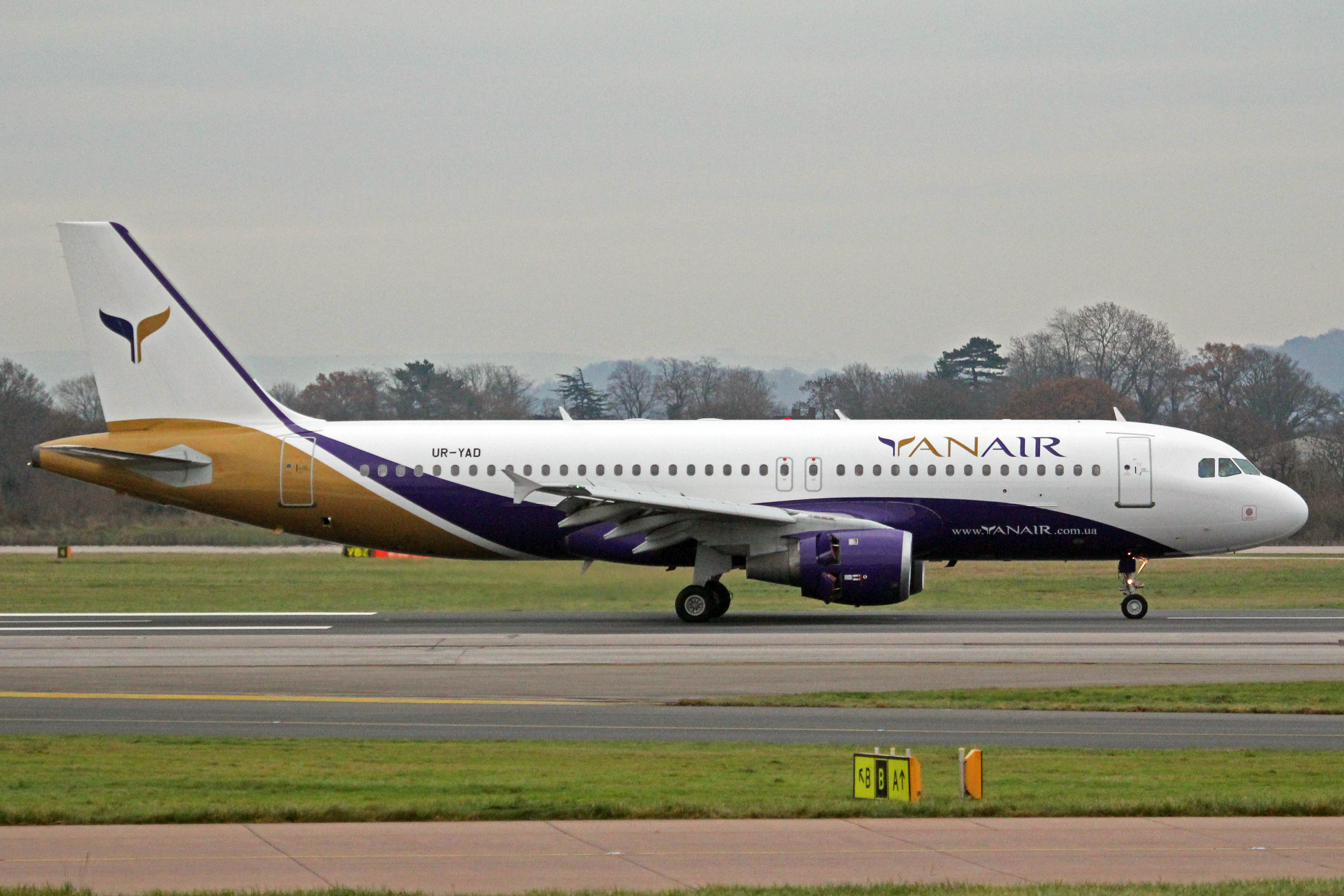 Yan Air's single A320 arriving on a charter flight from Donetsk with soccer fans to watch their team play against Manchester United this evening. Another ageing A320 that's 'been around'. Delivered to Ansett Airlines in Nov-97 as VH-HYN and operated by them until they ceased operations in Mar-02. It was returned to the lessor and stored in the USA as N726NS. In Oct-02 it was leased to Armavia as P4-VMF, later being re-registered in Armenia as EK-32007. It was returned to the lessor in Oct-05 and leased to LAT Charter in Latvia as YL-BCB. LAT Charter was renamed SmartLynx Airlines in Sep-08. During its time with LAT Charter/SmartLynx, an ACMI operator, it was operated for many third-party airlines. The aircraft was returned to the lessor in Jan-11 and stored at Shannon (SNN). In Jun-11 it was leased to White Airways in Portugal as CS-TQS. It was returned to the lessor in Feb-13, initially re-registered EI-FAI and stored at Amman (AMM). It was ferried to Goodyear (GYR), AZ, USA in Apr-13 where it was transferred to Bank of Utah {as owner trustee} and re-registered N281LF. It was thought to be permanently retired but in Aug-13 it was leased to Yan Air, Ukraine. Now 16 years old (Dec-13) it's looking good in Yan Air's 'Monarch style' livery.